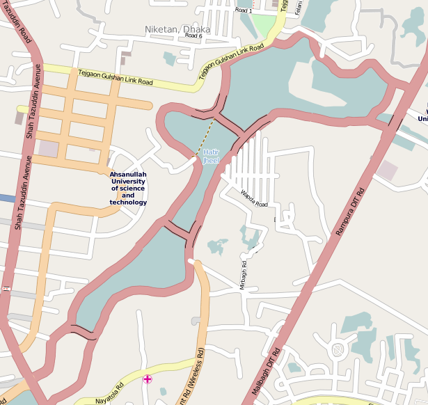 Map of Hatirjheel